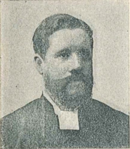 Swedish politician August Pettersson. From page 7 of an album featuring portraits of all the members of the second chamber of the Swedish parliament (Sveriges riksdag) elected in 1897.